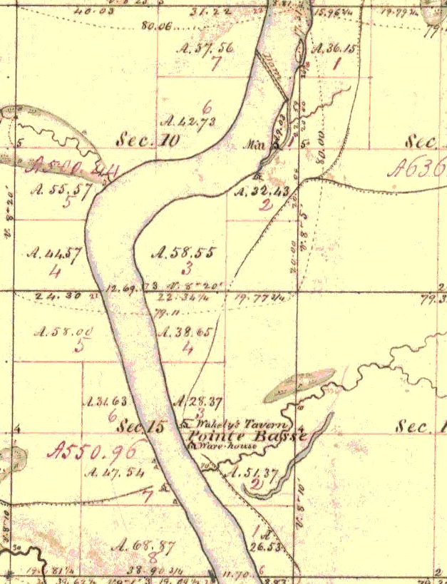 Part of T21N R5E Wood County Wisconsin, magnified to show the historic village of Pointe Basse. The dam and mill were built by Daniel Whitney's private company. The present-day dam is in approximately the same location. Modern Nekoosa occupies section 15 government lot 6 through section 10 lot 7.